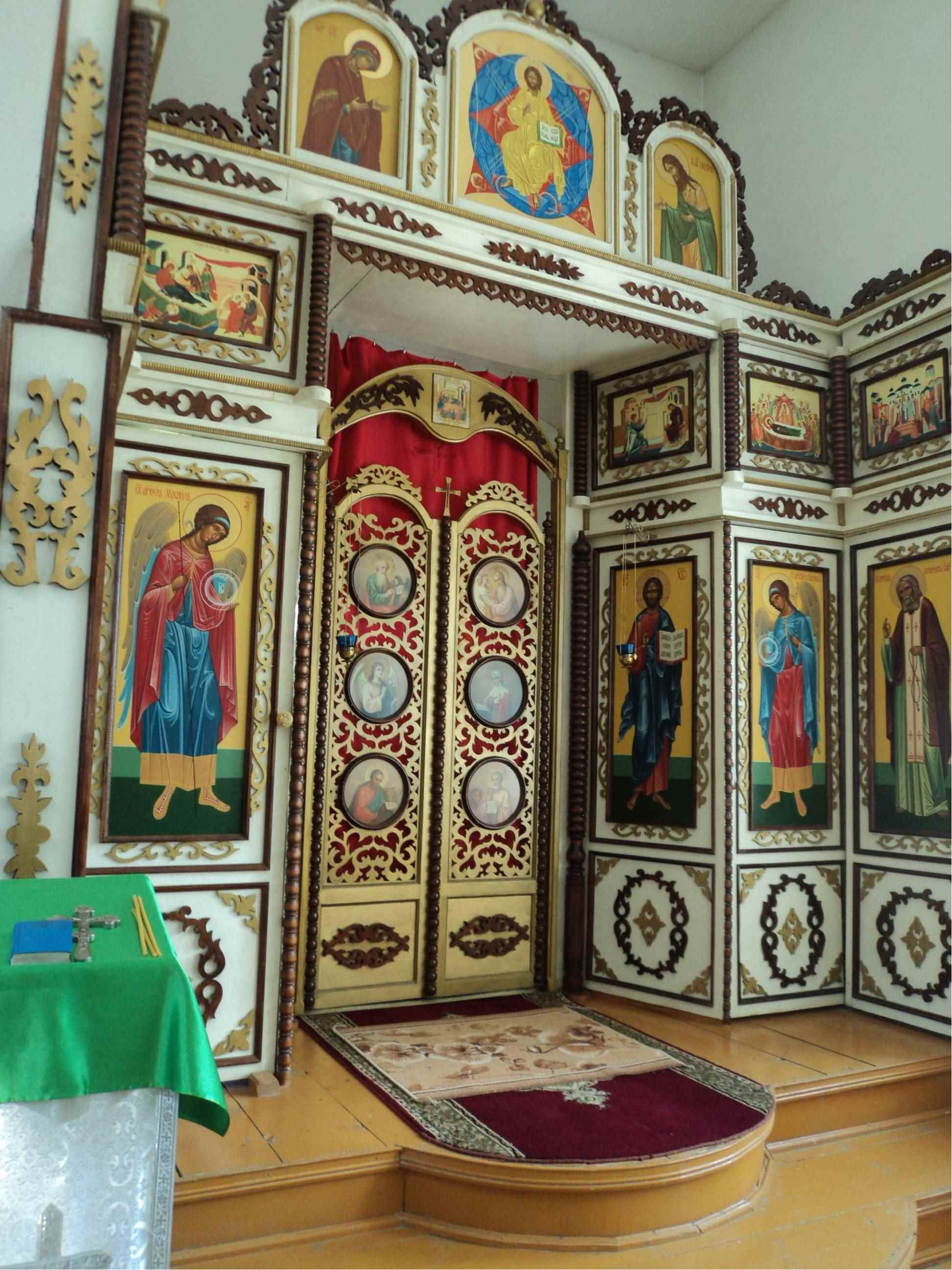 The Side Chapel of the Intercession of the Theotokos. The Church of Transfiguration of Jesus. Kudeikha village, Poretsky District, Republic of Chuvashia, Russia